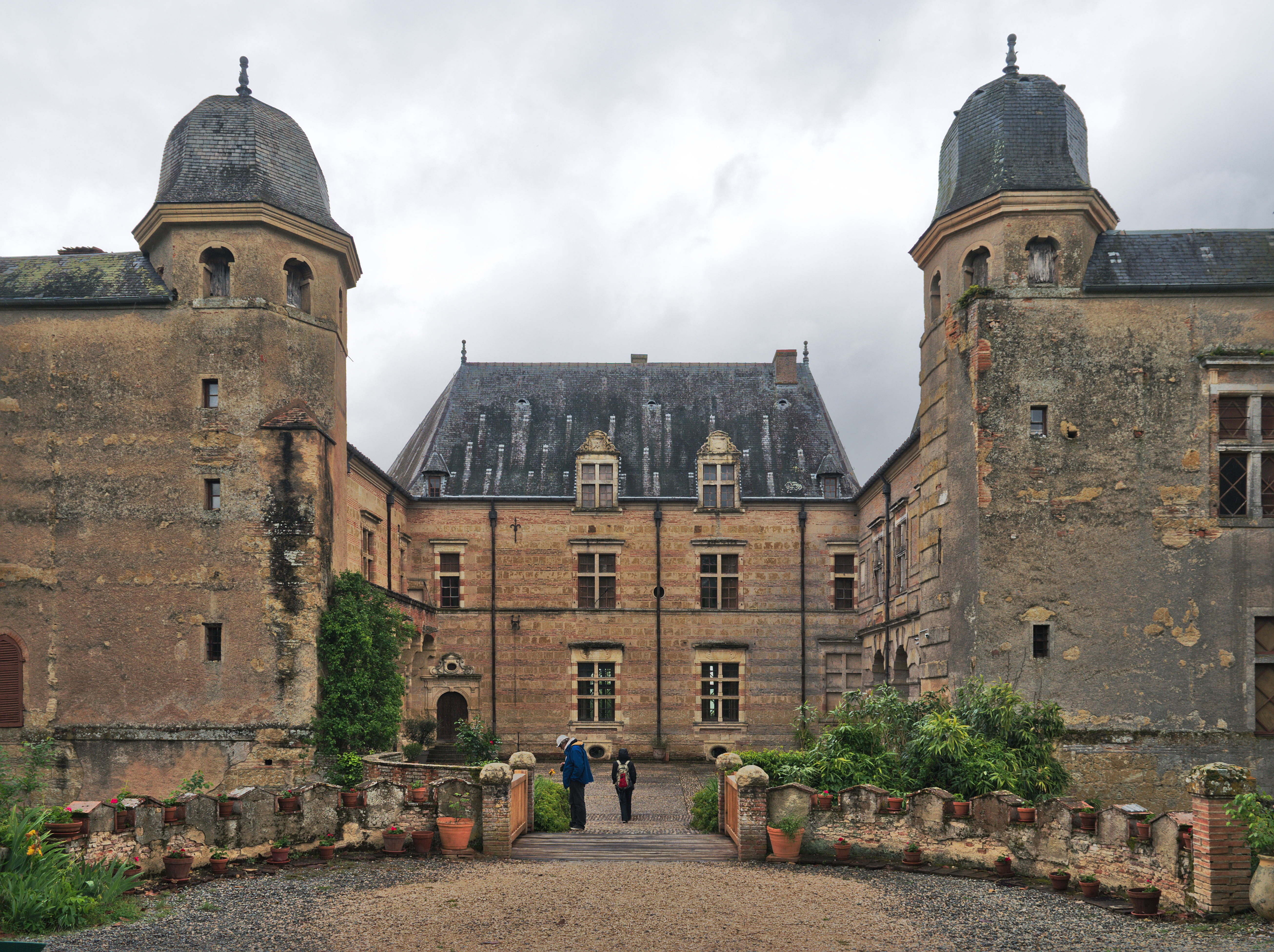 Castle of Caumont .